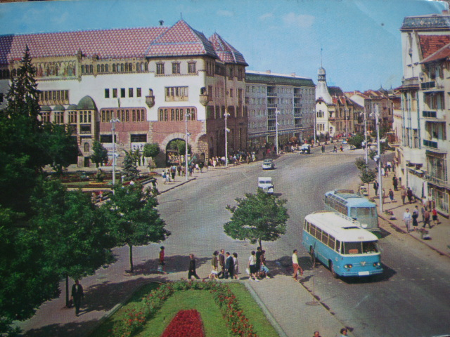 Buses in Marosvásárhely (1967).